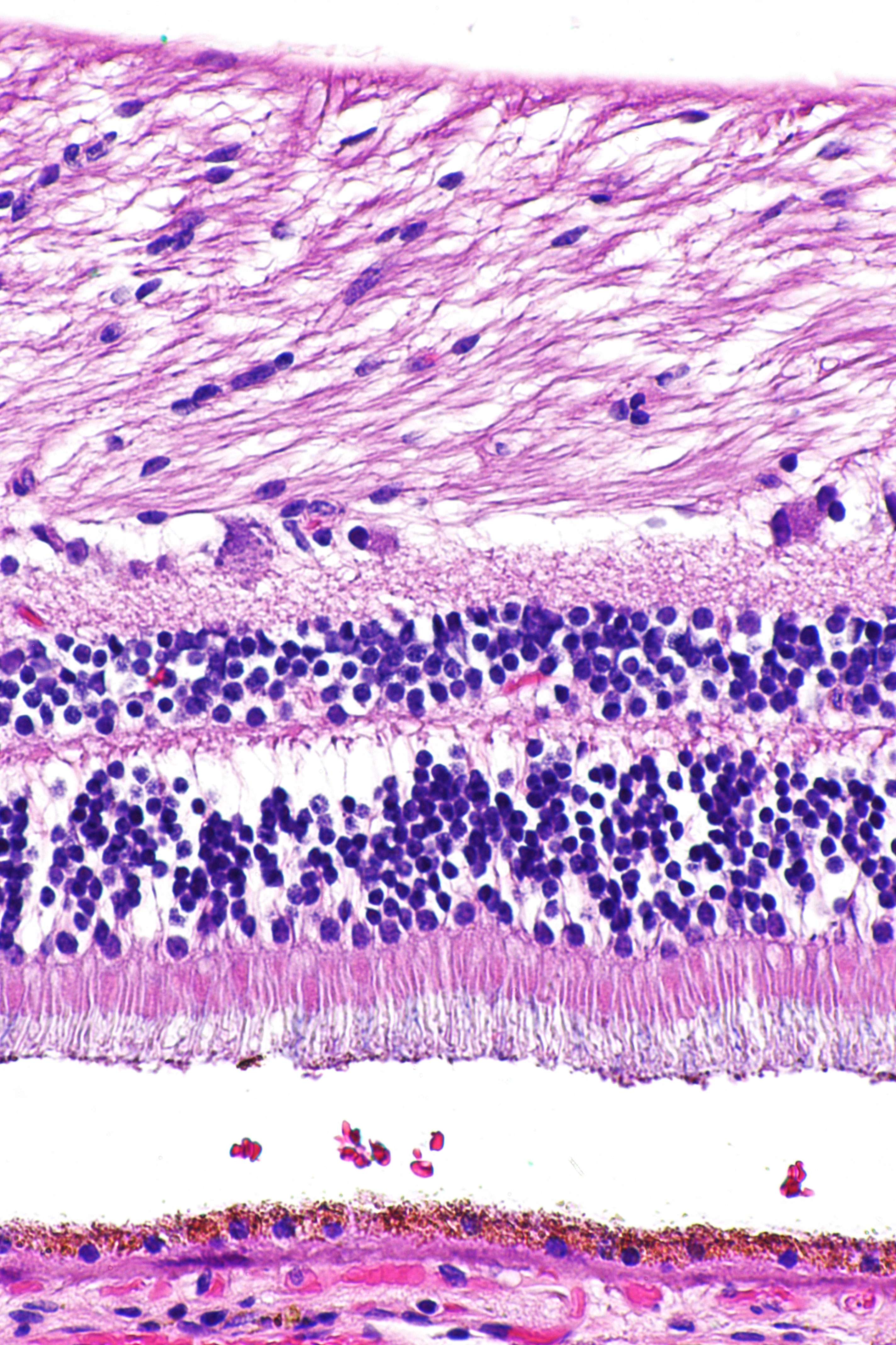 Micrograph showing optic nerve head and retina. H&E stain. Related images Optic nerve & retina - low mag. Retina - intermed. mag. Retina - high mag. Retina - very high mag.